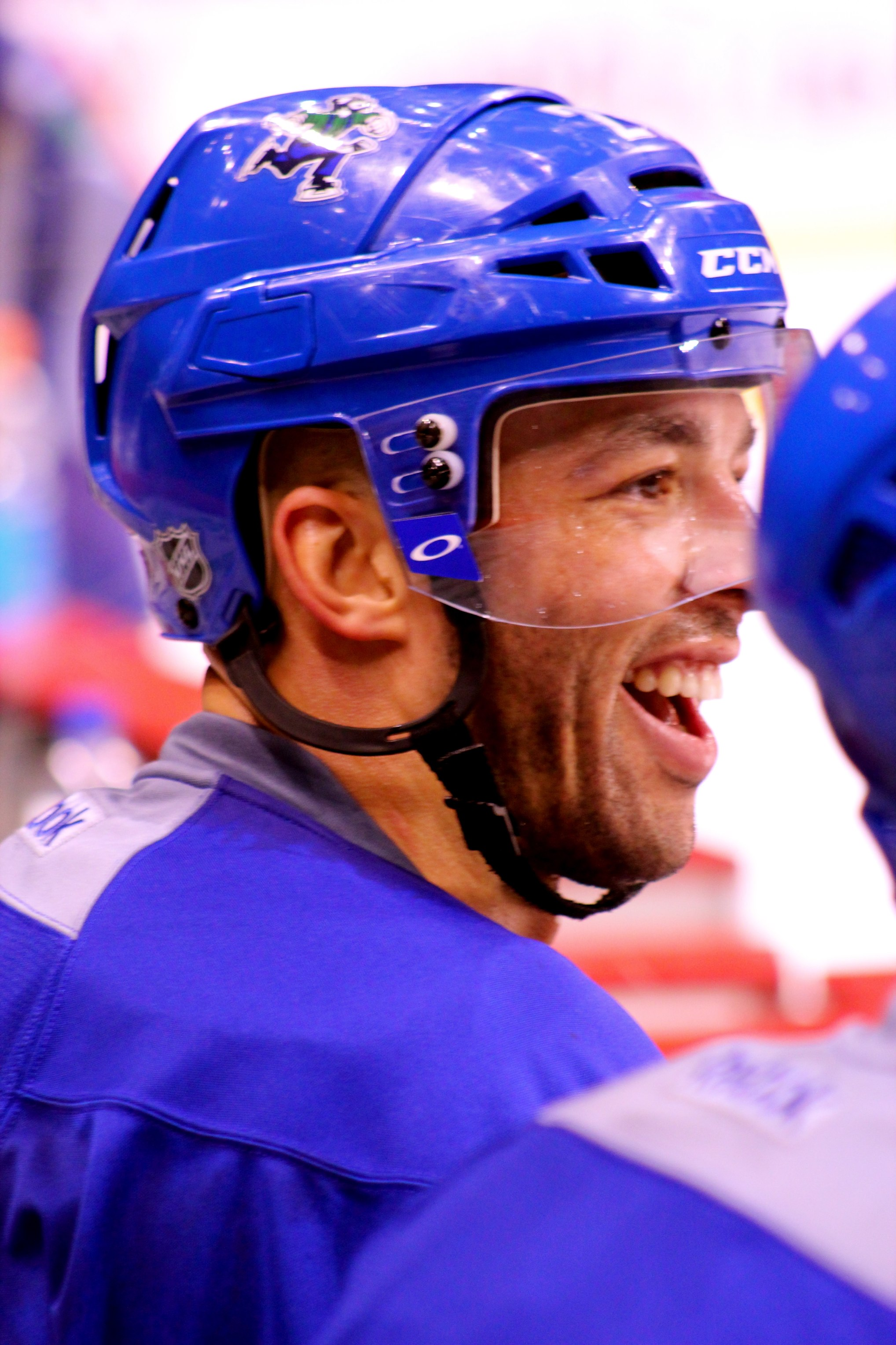 Vancouver Canucks forward Manny Malhotra during a practice on March 9, 2012.